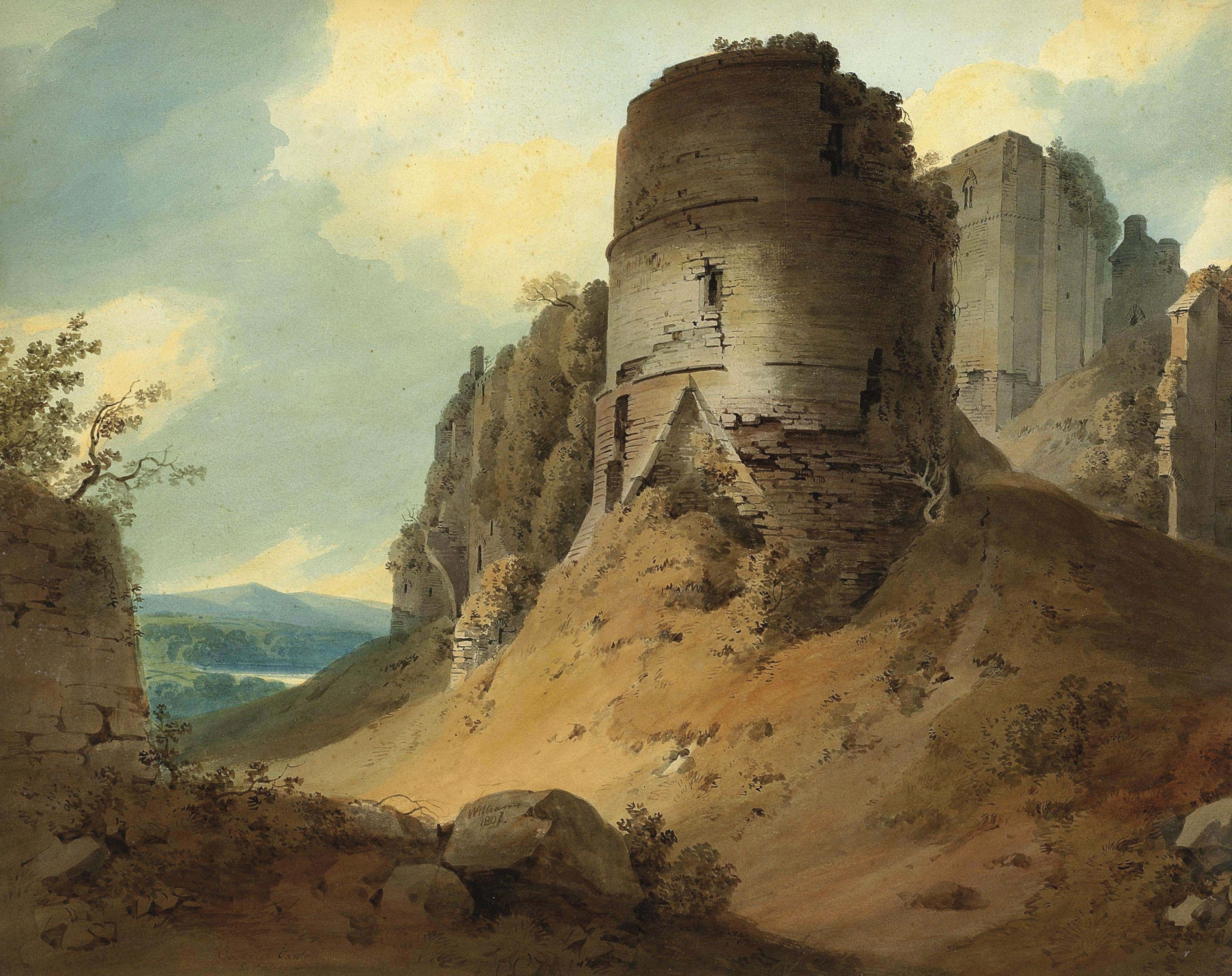 Goodrich Castle